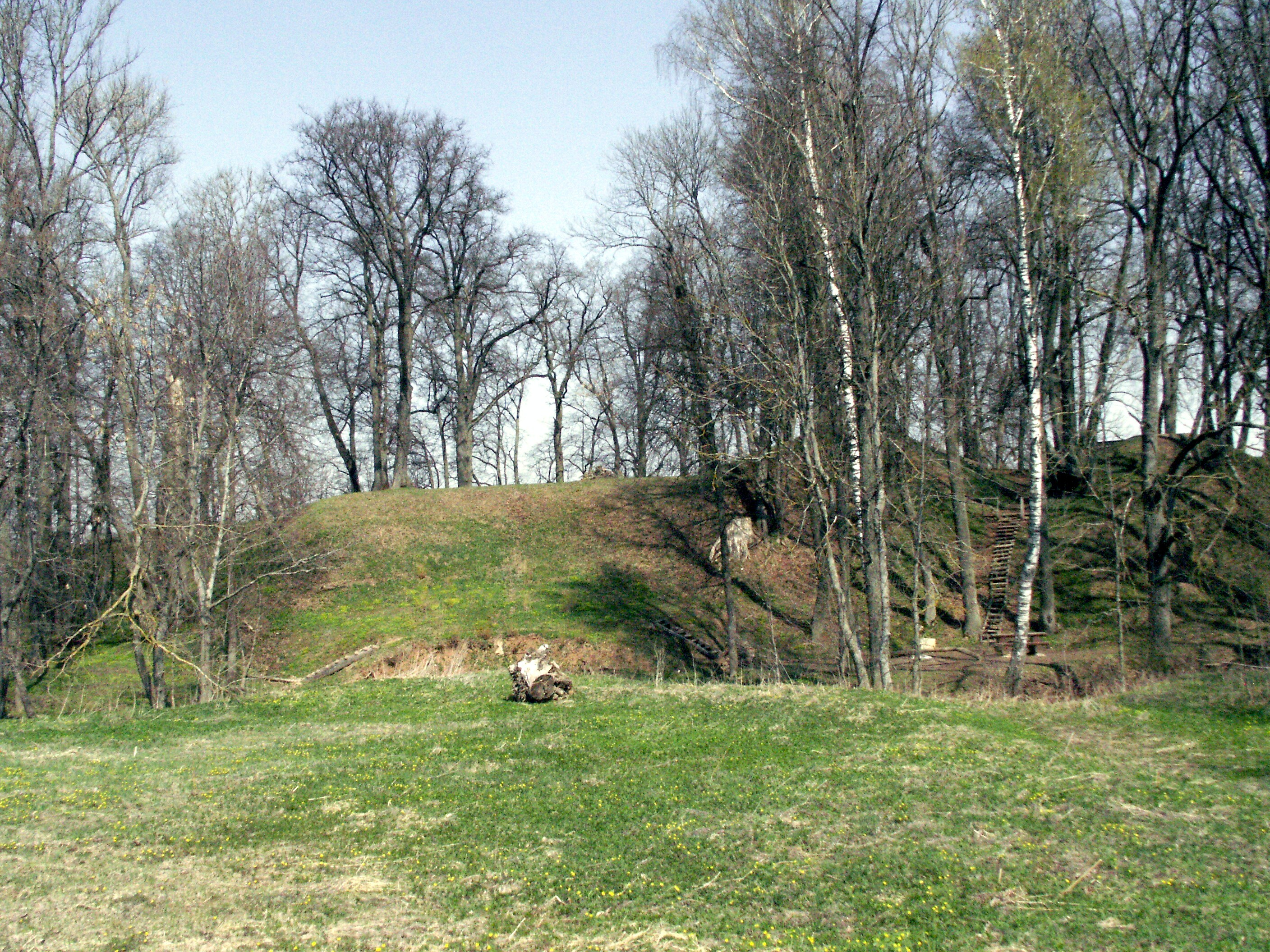 Ąžuolpamūšė hillfort, Pasvalys district, Lithuania